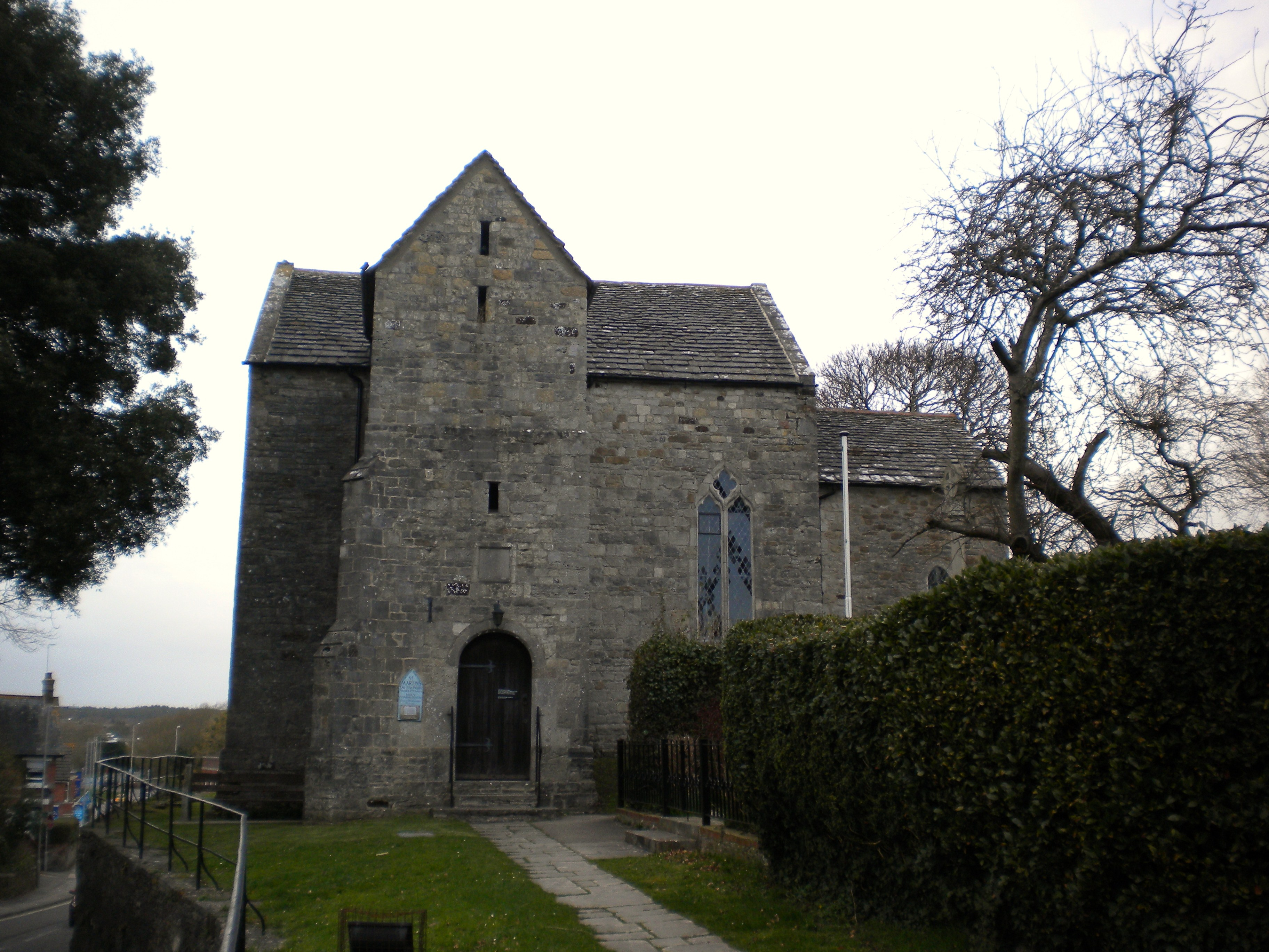 St Martin's on the Walls Church, Wareham, Dorset, England.